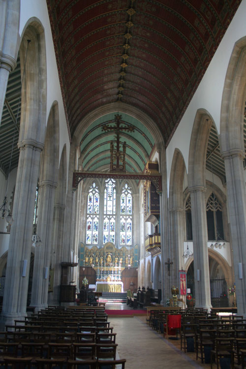 Church of St German of Auxerre, Adamsdown, Cardiff, designed by architects Bodley & Garner and built 1881-4. View of nave, rood screen and chancel